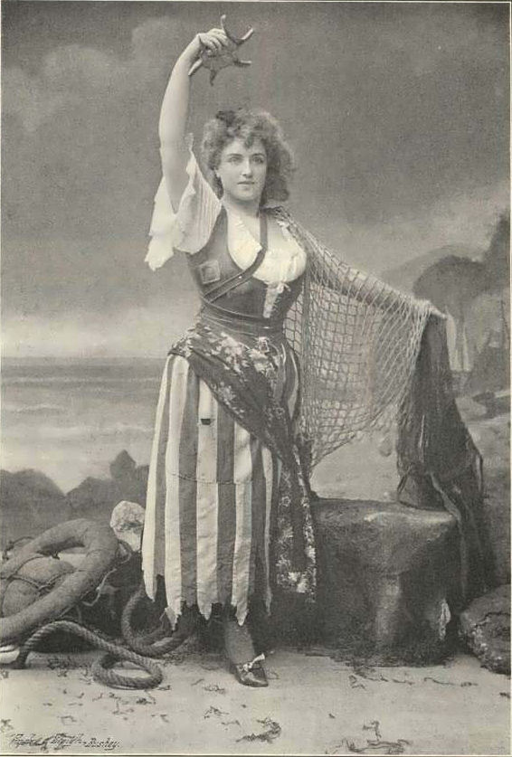 Photograph of Lillian Russell in The Queen of Brilliants